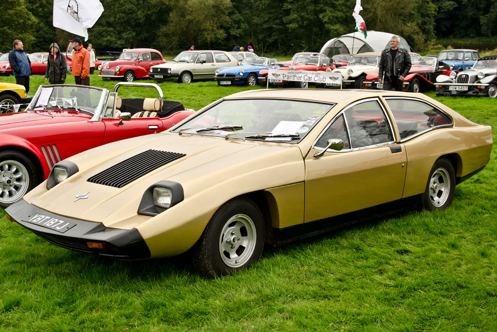 Arley Hall Classic Car Show 23/09/2012